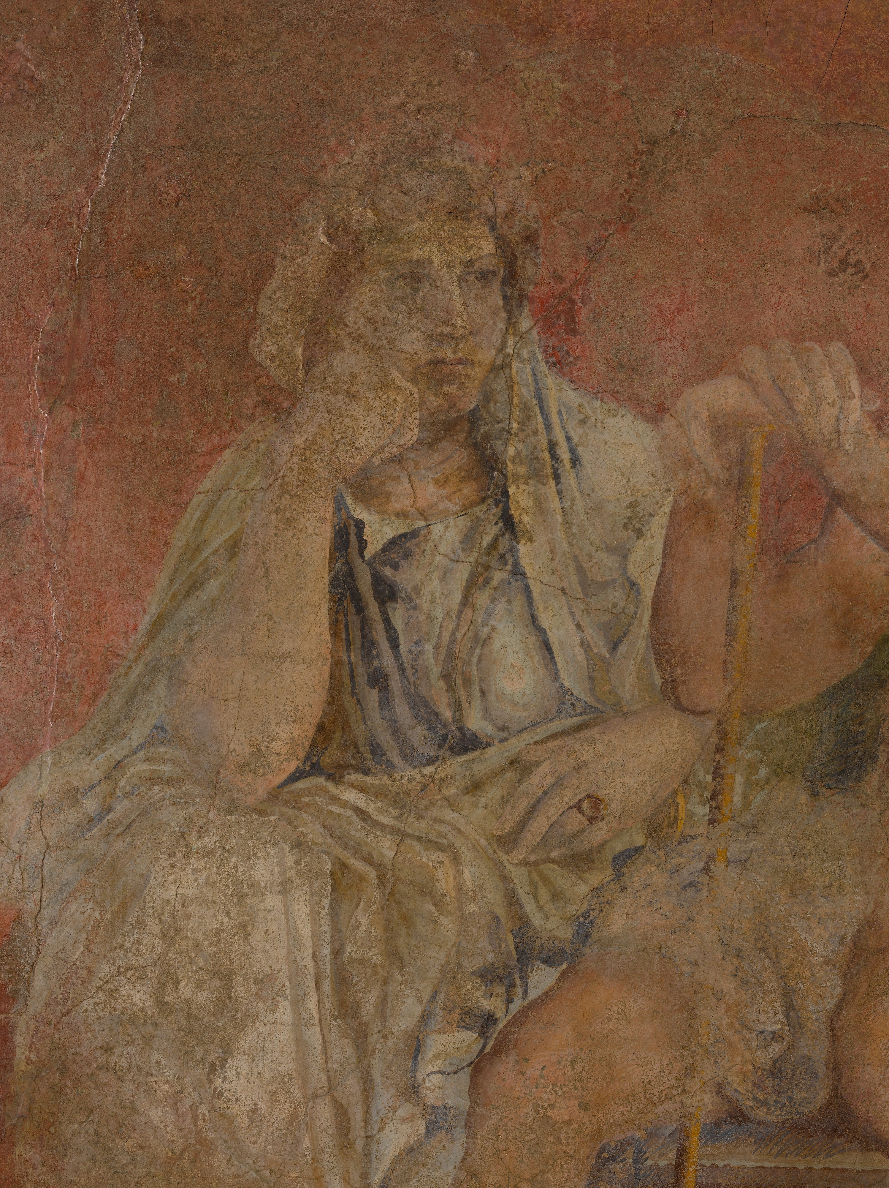 Roman; Wall painting; Miscellaneous-Paintings